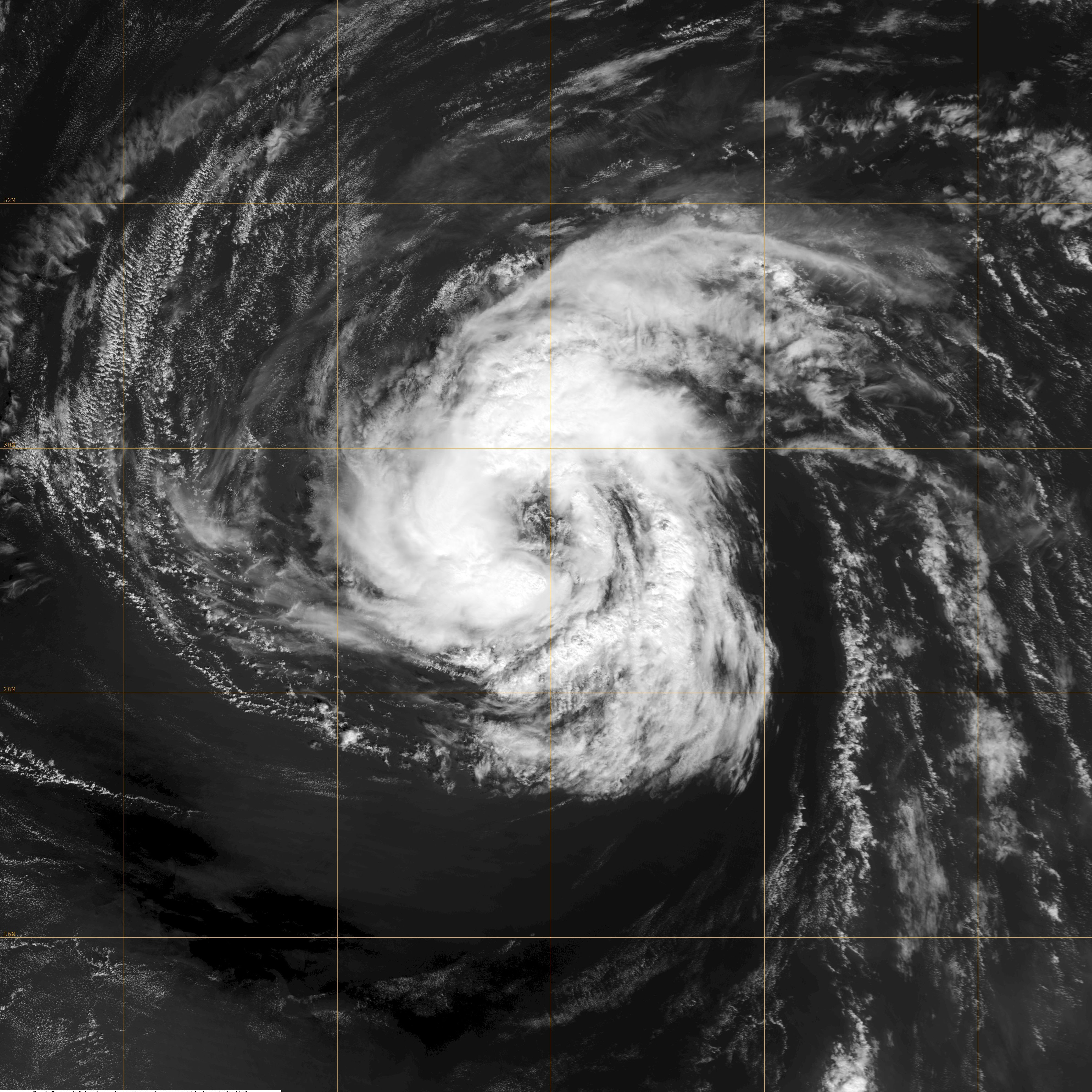 This image of Tropical Storm Isaac was captured by the MODIS instrument on NASA's Terra satellite at 1451 UTC on September 29. At the time, winds were 45 mph and the pressure was 1006 mb.